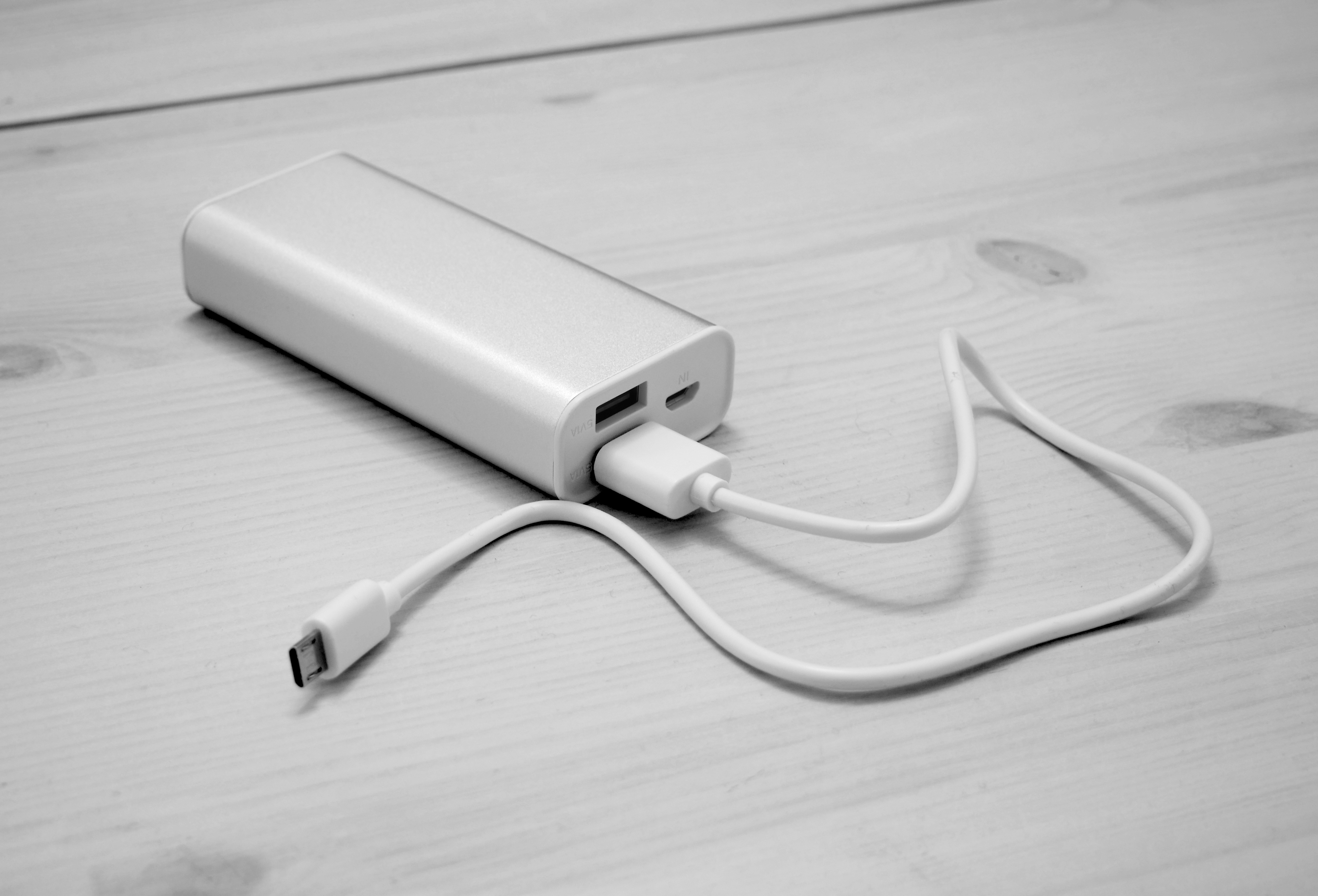 Portable power bank for smartphone.